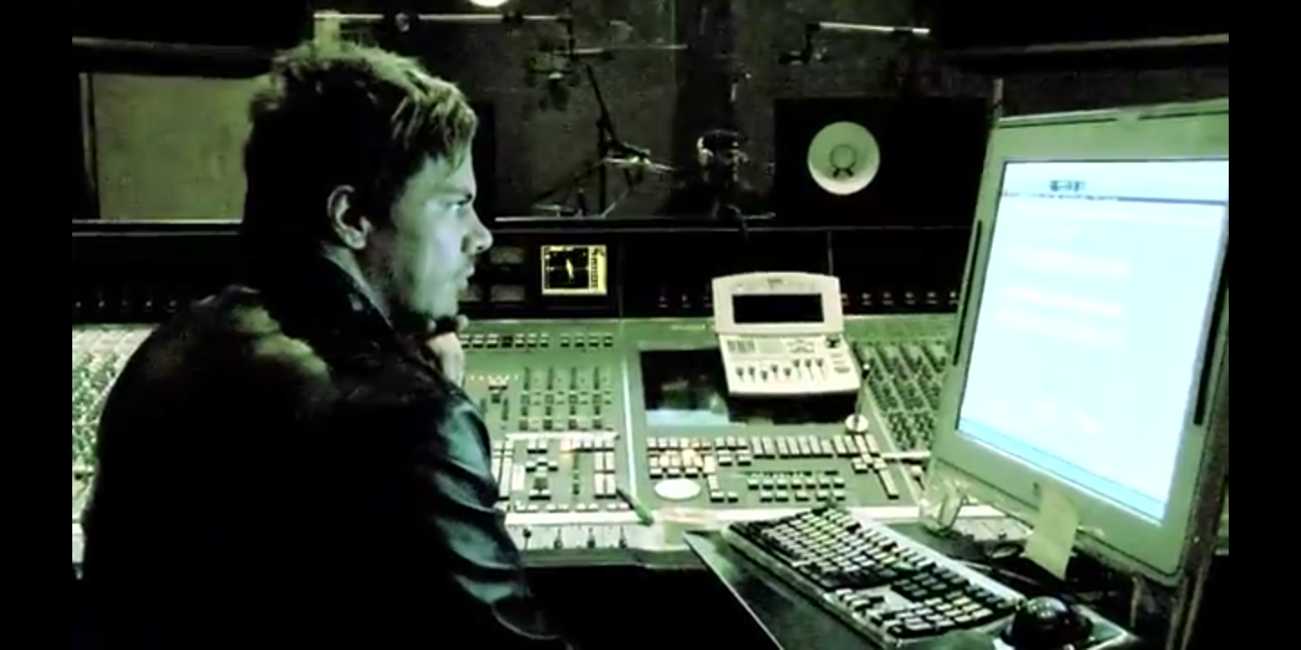 Josh Atchley working on music in his studio